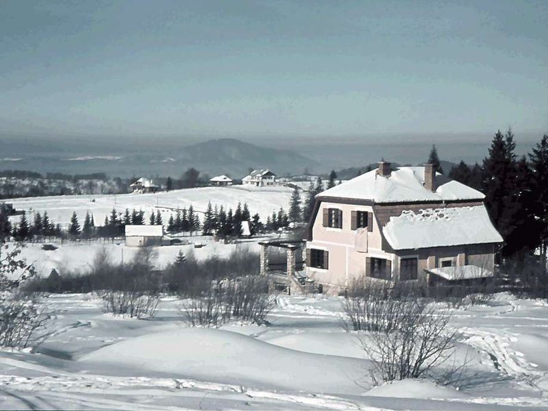 Poiana Brasov resort, Romania. Vergotti villa in foreground (now Vila Camelia). Photo from Landesarchiv Baden-Württemberg archive, cropped.